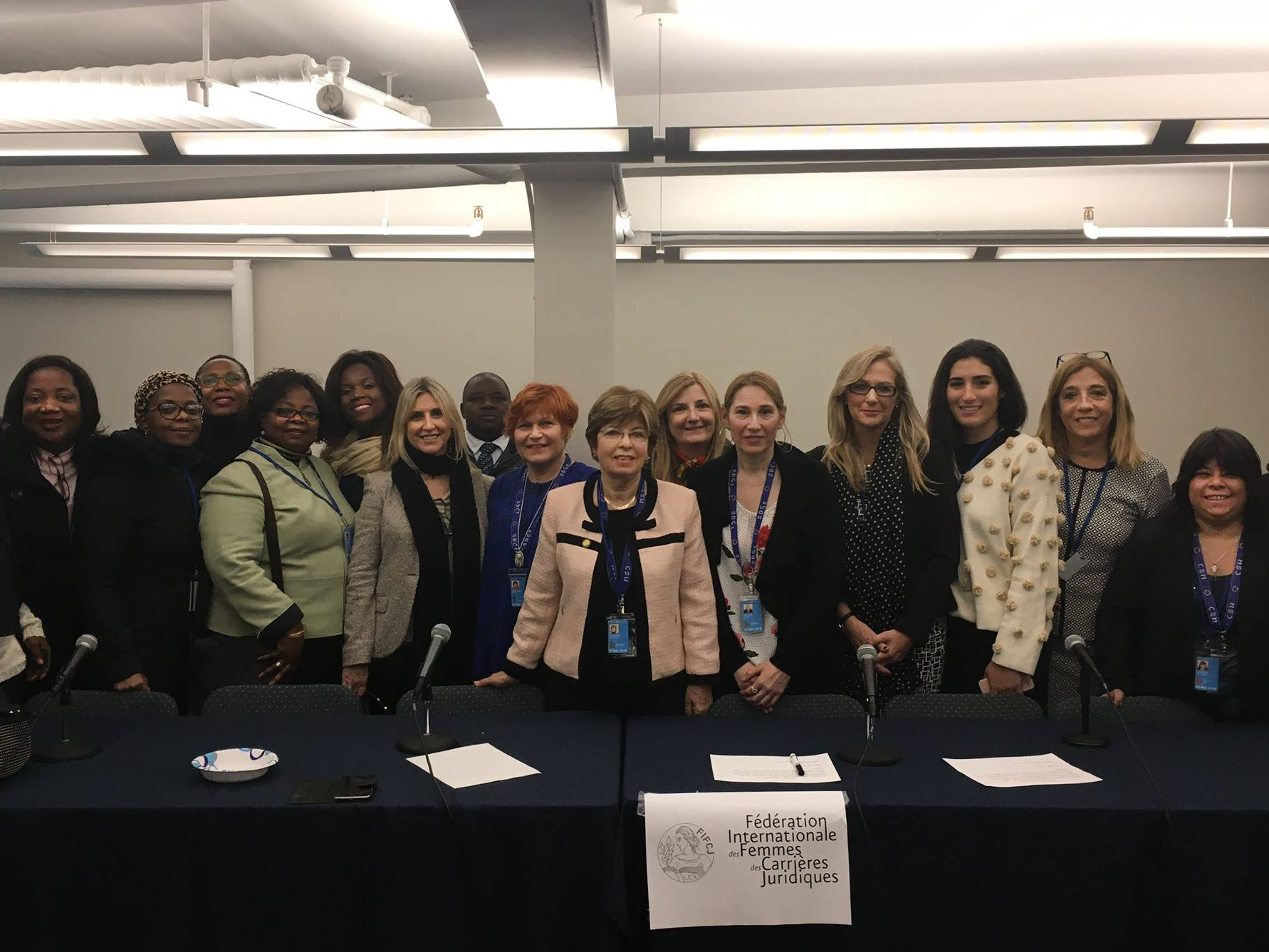 FIFCJ Side Event to CSW62. NY, 2018